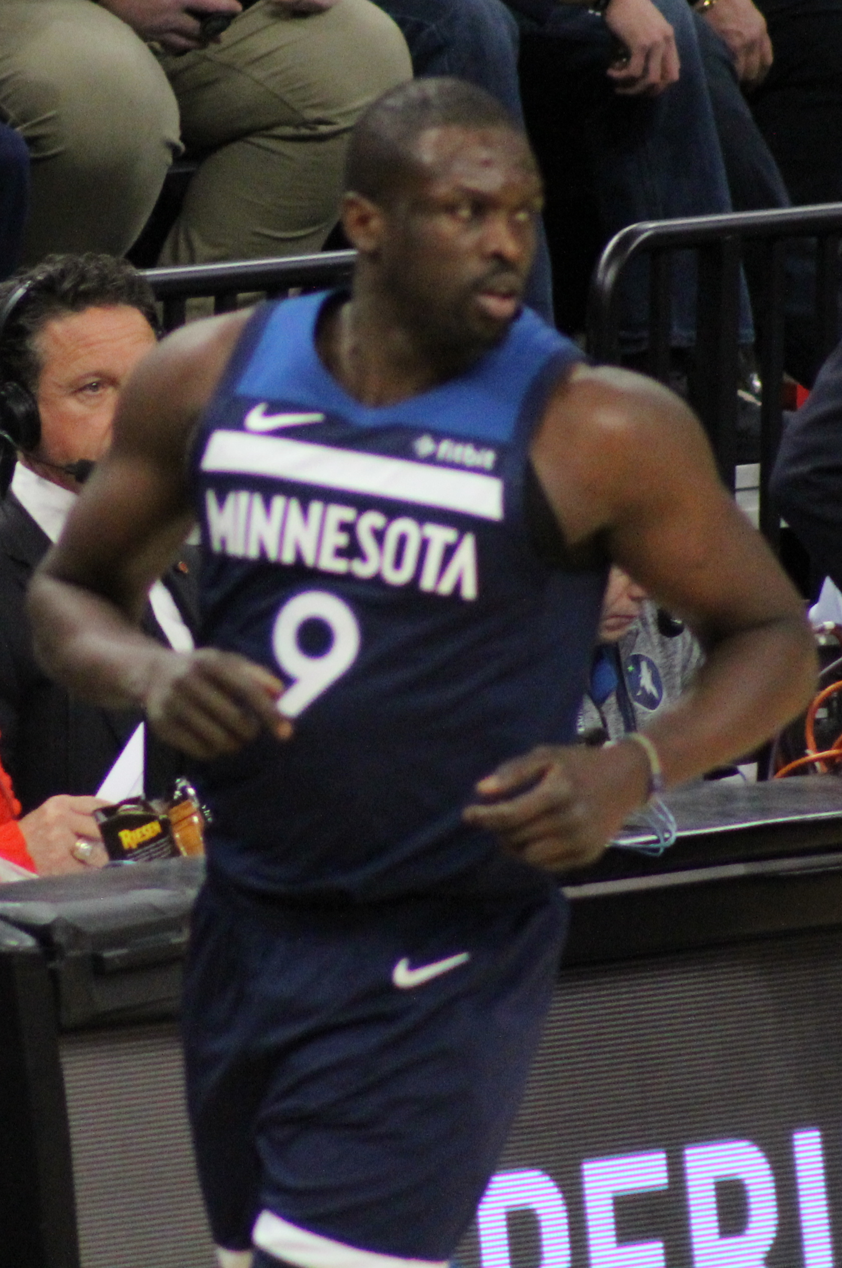 Luol Deng of the Minnesota Timberwolves